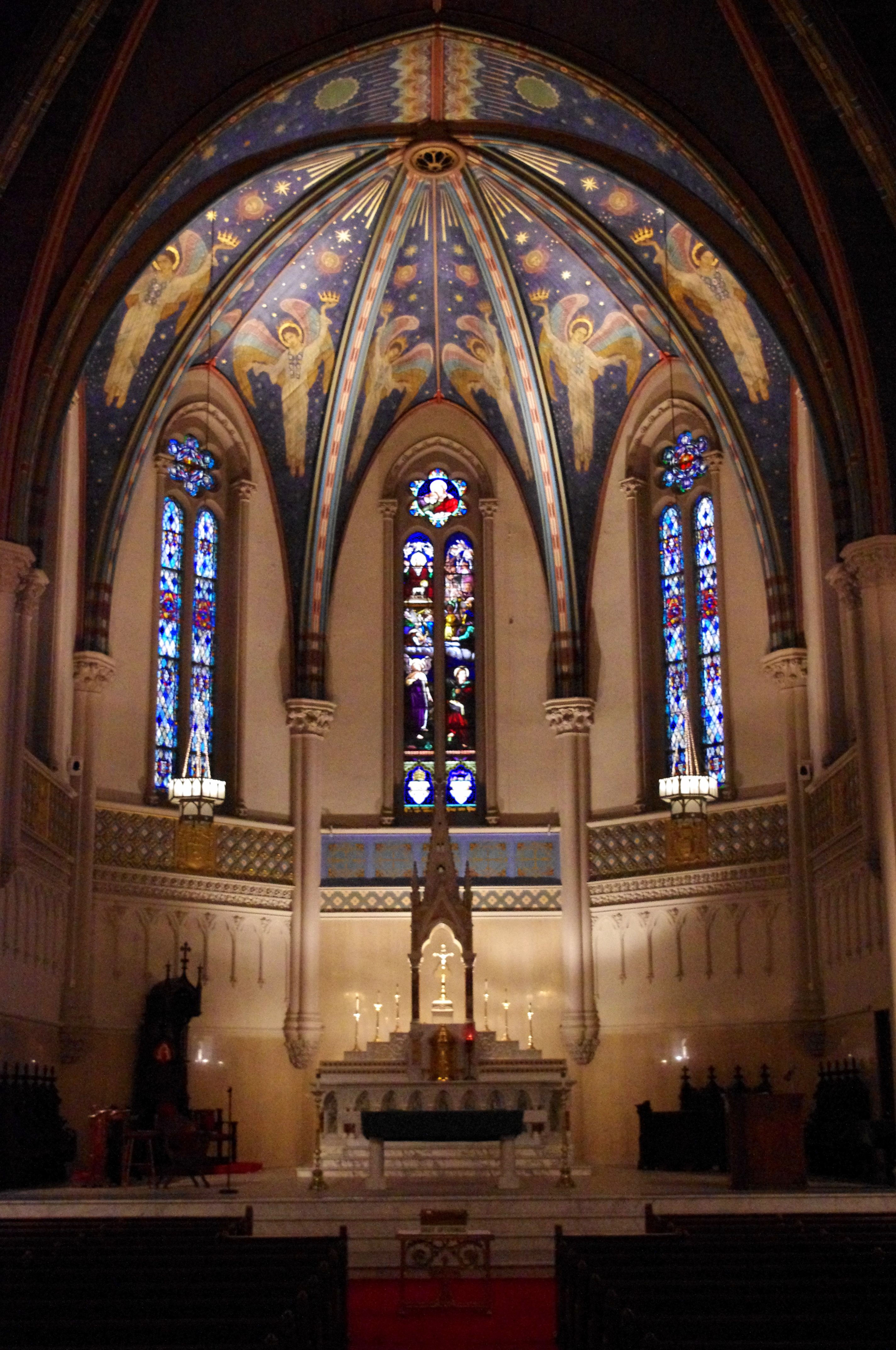 Saint John the Evangelist (Indianapolis, Indiana), interior, sanctuary